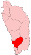 Map of Dominica showing Saint George parish.